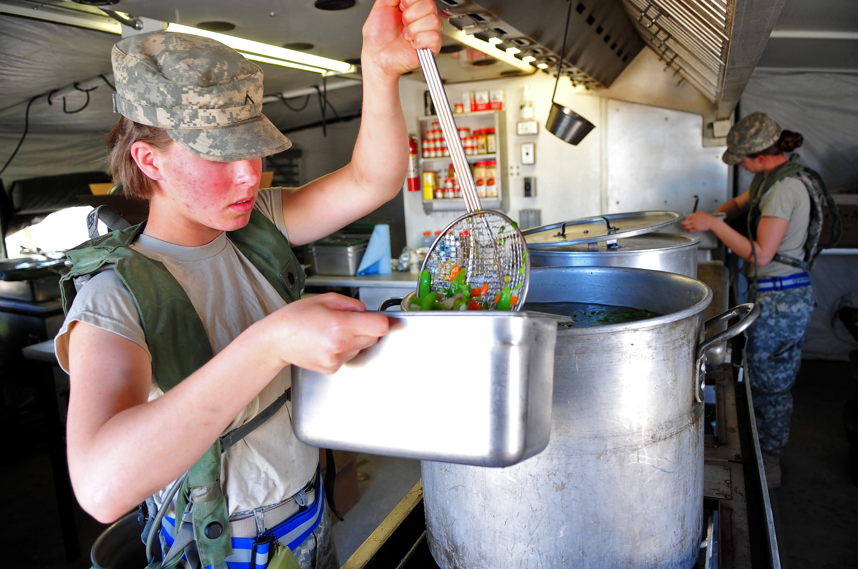 U.S. Army Pvts. Renee Harris and Paige Atkinson, both with the 64th Brigade Support Battalion, 3rd Brigade Combat Team, 4th Infantry Division, prepare food in a field kitchen at Fort Irwin, Calif., during National Training Center 2010-02 training on Nov. 16, 2009. The training, held 10 times a year, provides realistic joint and combined arms training in interagency, intergovernmental and multinational venues to prepare brigade combat teams for combat.